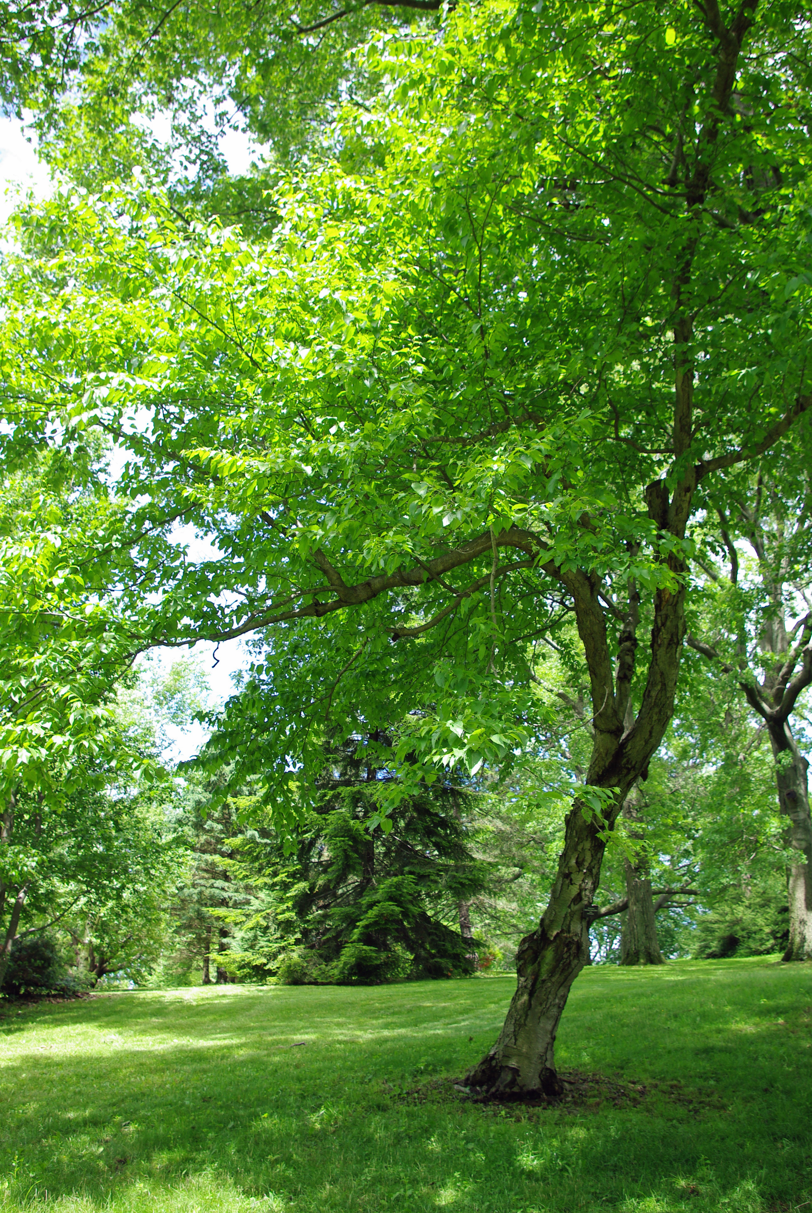 Betula grossa, Arnold Arboretum, Boston, Massachusetts